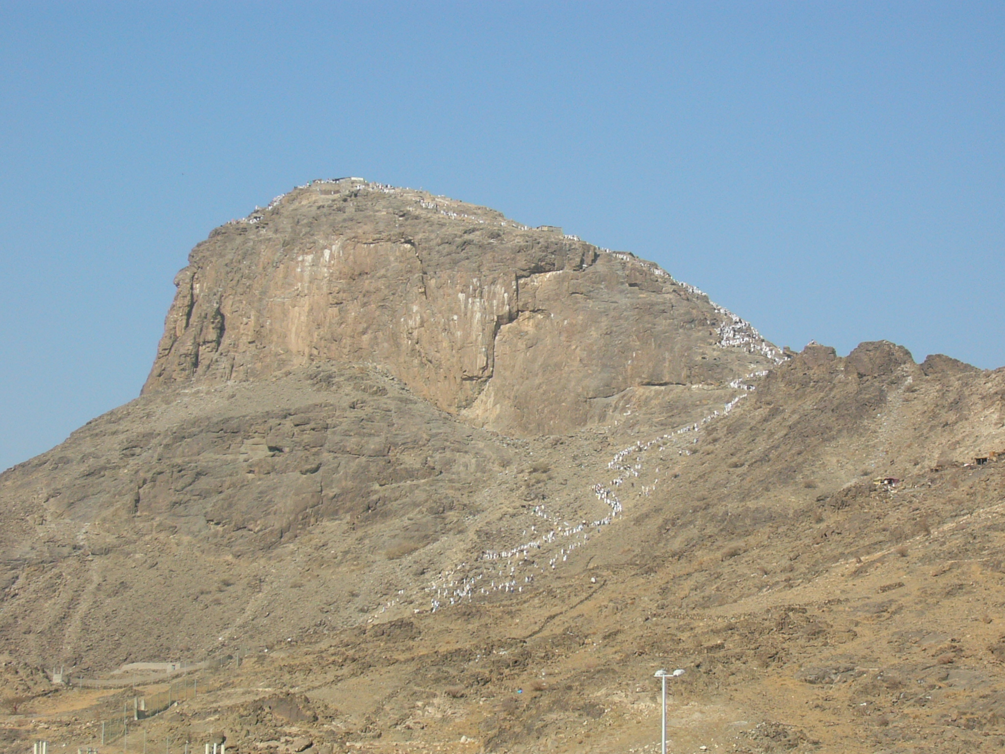 Jabal an-Nour (also Jabal an-Nur or Jabal Nur), (Arabic: الجبل النور), meaning "The Mountain of Light", is a mountain in Saudi Arabia. It houses the cave Hira where Muhammad is said to have received his first revelation from God (Arabic Allah) through the angel Gabriel. Cave of Hira resides on top of the mount.